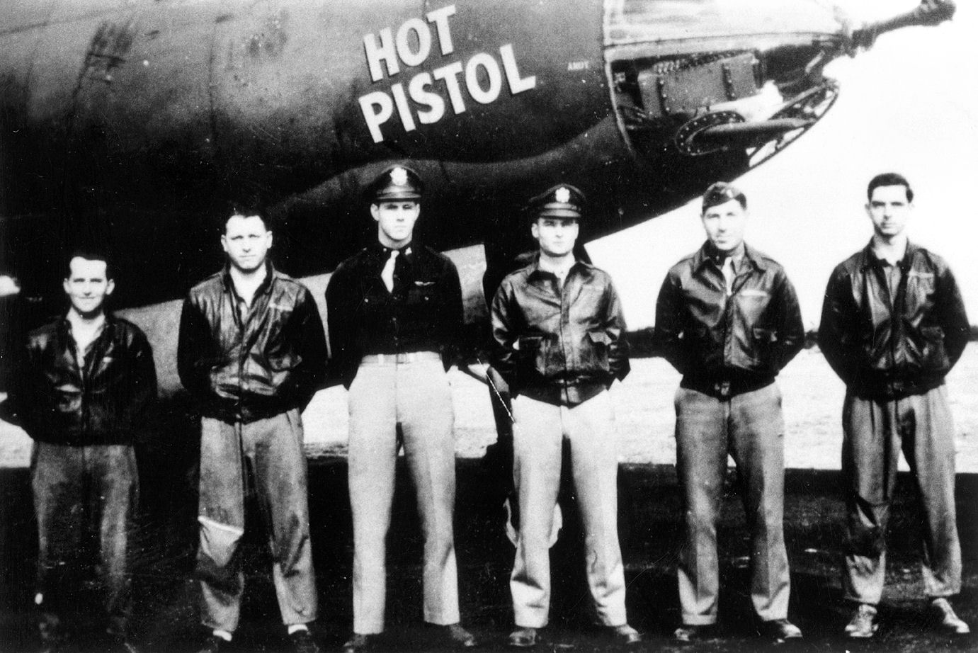 A bomber crew of the 386th Bomb Group with their B-26 Marauder (RG-P, serial number 41-31633) nicknamed "Hot Pistol". Image via Chester P Klier. Printed caption on reverse: '552nd BS, 386th BG. A/C name: Hot Pistol, A/C Ser no. 41-31633 RG-P. Crew left to right: 1-A/C: Lynch H Everhart, 2-E/G: Eugene Hood, 3-C/P: James W Bryant, 4- Pilot Justin C Lubojasky, 5: B/N Amar Adranigan, 6- R/G: Socrates N Triantafellu.'